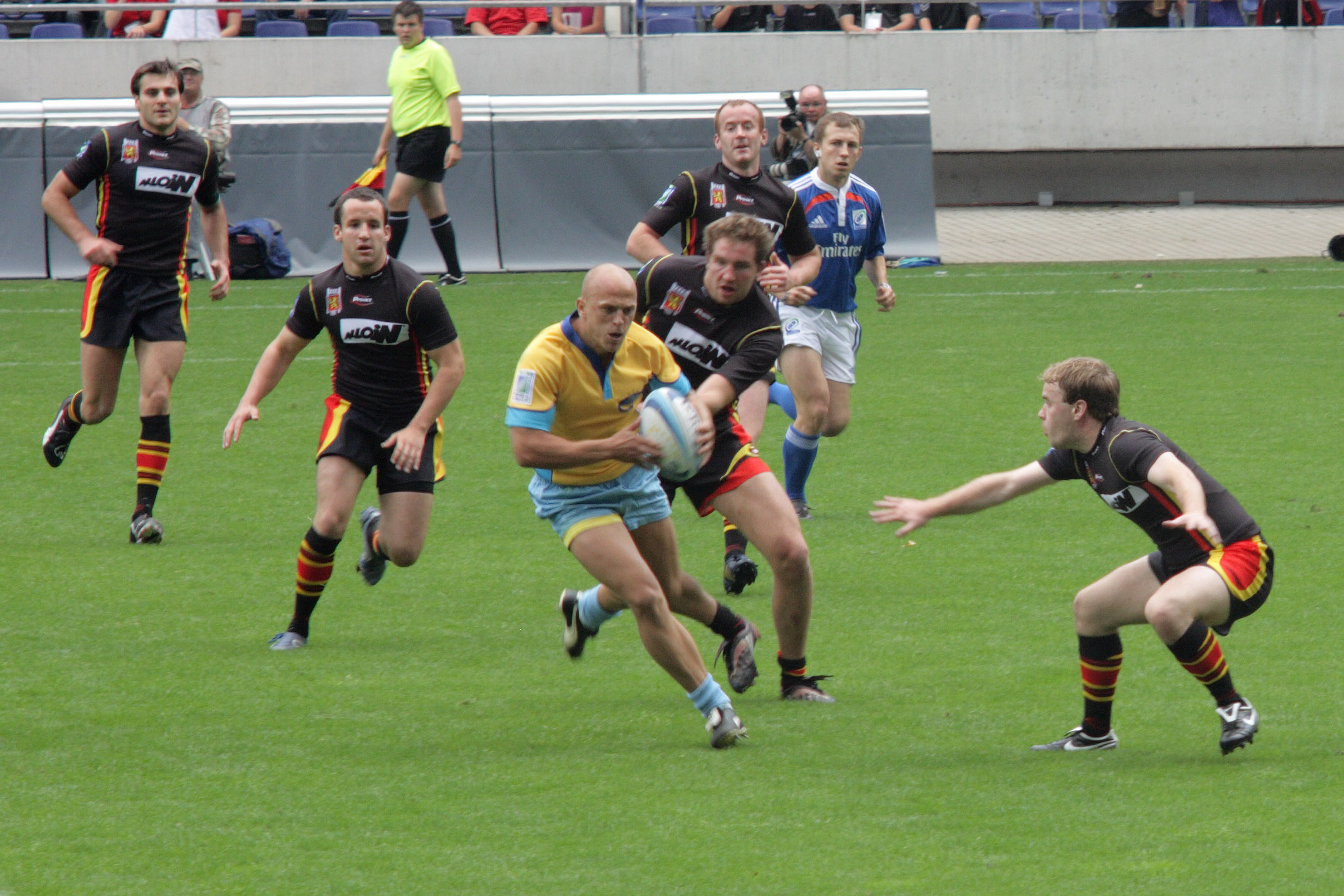 European Sevens 2008 (Hannover Sevens) tournament in Hannover, Germany. Fourth game in group B: Ukraine vs Belgium. Oleg Kvasnitsa on his way to scoring a try for Ukraine. Ukraine won the game 22:12.